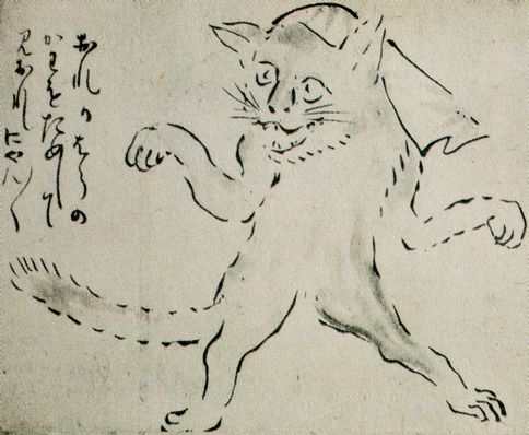 Bakeneko (化け猫, monster cat) from the Buson Yōkai Emaki (蕪村妖怪絵巻)